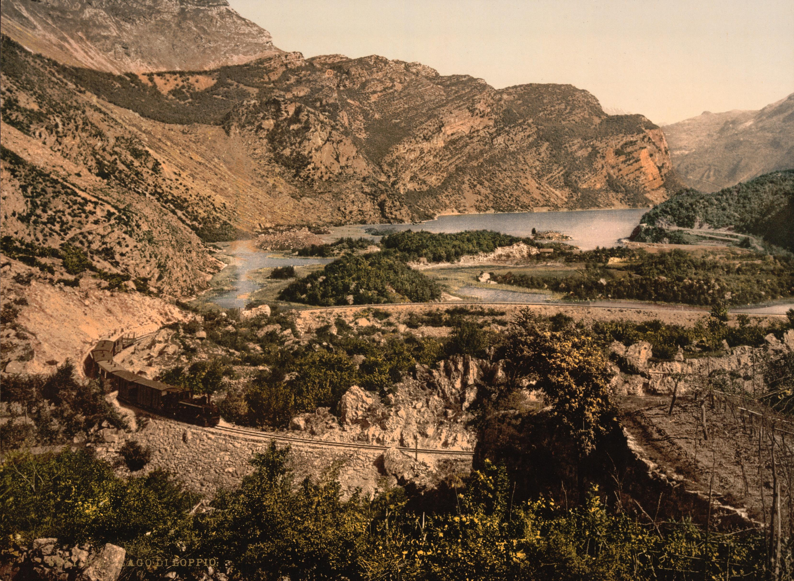 Lago di Loppio with train of the 2ft narrow gauge railway Mori-Arco-Riva. Photochrome poastcard from publisher Photoglob in Zurich.